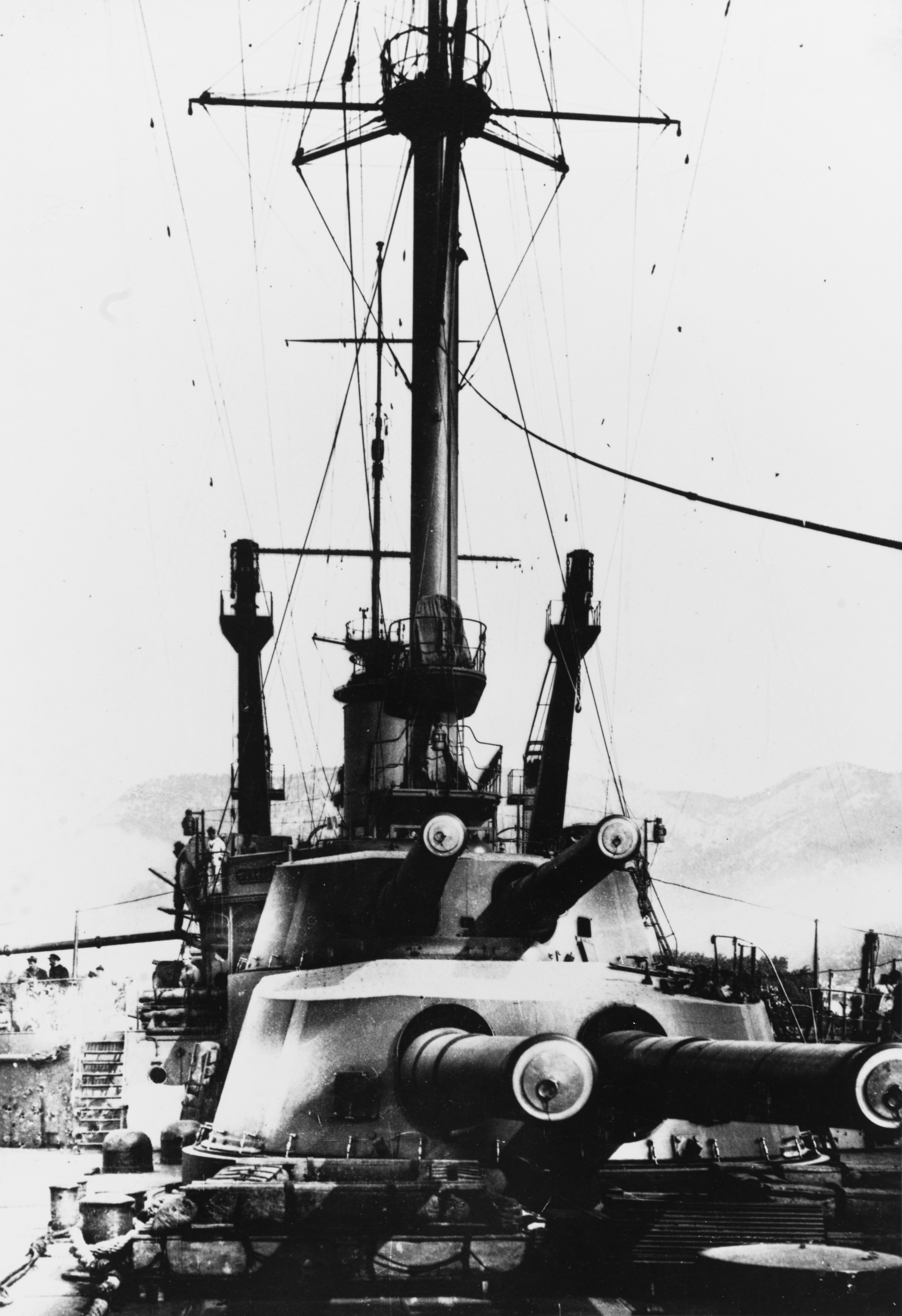 " After turrets photographed at Toulon, France, circa 1919 by Robert W. Neeser. Note the life rafts on deck."